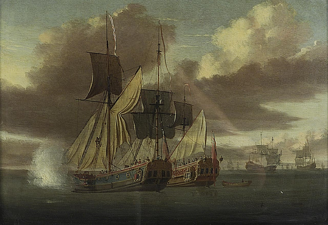 Royal Yachts, one Ketch Rigged and one Smack Rigged Two royal yachts, in port-quarter view, side-by-side. One is ketch-rigged and may be the 'Fubbs' and the other is smack-rigged, possibly the 'Katherine'. The yacht to the left is firing a salute and a number of men can be seen on the decks of both vessels. Numerous other ships are visible in the background to the right. De Man was a Dutch artist who worked in England over the period 1707-20, arriving at about the time of the death of van de Velde the Younger. He worked for some of the time at or near Deptford on the Thames, where nearly all the ships that he portrayed were based. He was a competent and accurate recorder of yachts and shipping familiar in the lower reaches of the Thames in the early years of the 18th century. His signature, where it occurs, is 'L. D. Man' in the extreme lower left or right corners of paintings and with the 'D' superposed. This is most likely to be a contraction of 'de', in the same form as used by the Delft painter Cornelius de Man (1621-1706), one of a large Delft family of that name. There is no firmer evidence of a Delft connection for L. De Man but it may have been his point of origin. This painting is one of a pair; see also BHC0980. (Framed) Royal yachts, one ketch rigged and one smack rigged